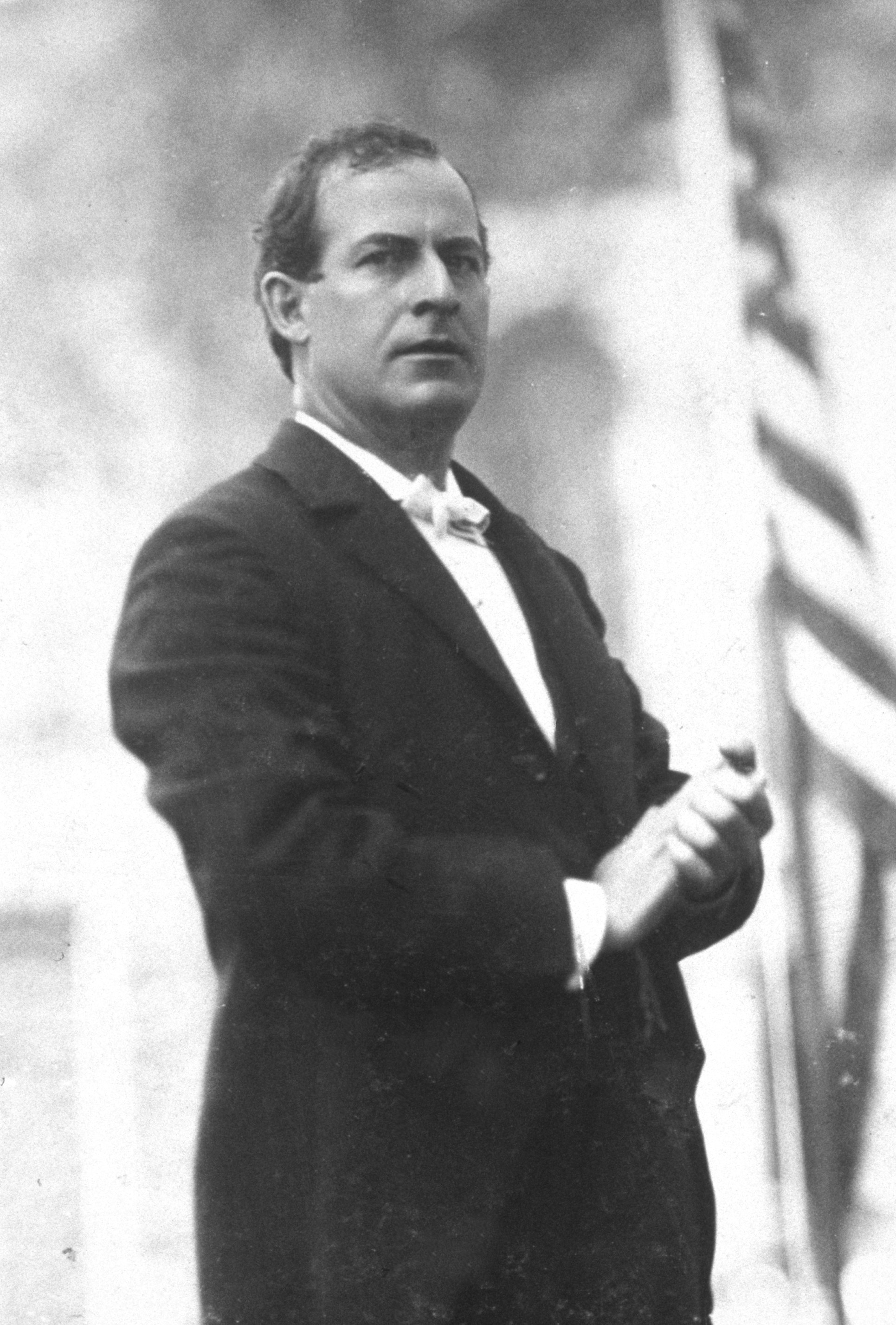 William Jennings Bryan, Democratic party presidential candidate, standing on stage next to American flag